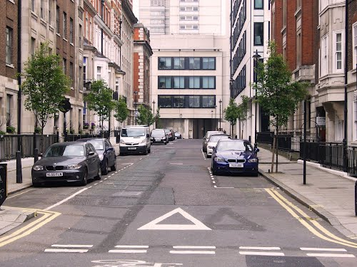 South end of Hallam Street in Marylebone London W1W